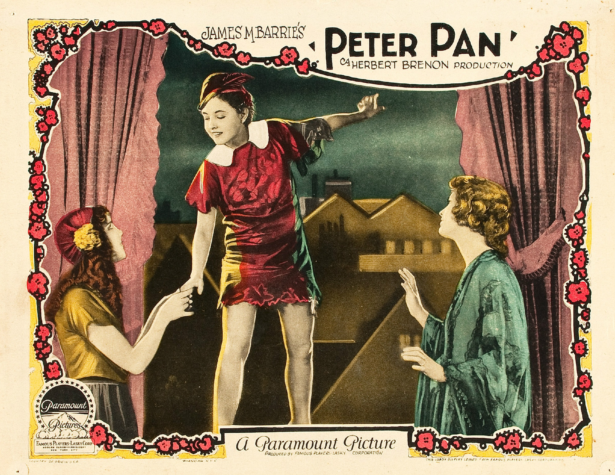 Lobby card for the 1924 film Peter Pan.